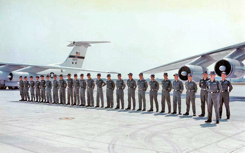 Gradating class - Altus AFB, 1970s